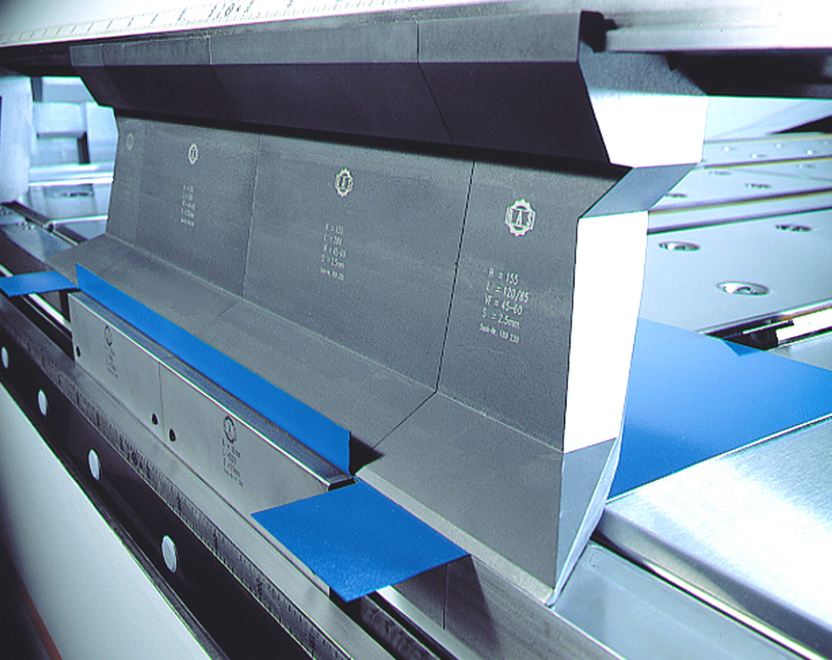 Modern folding machines automatically lock the tools